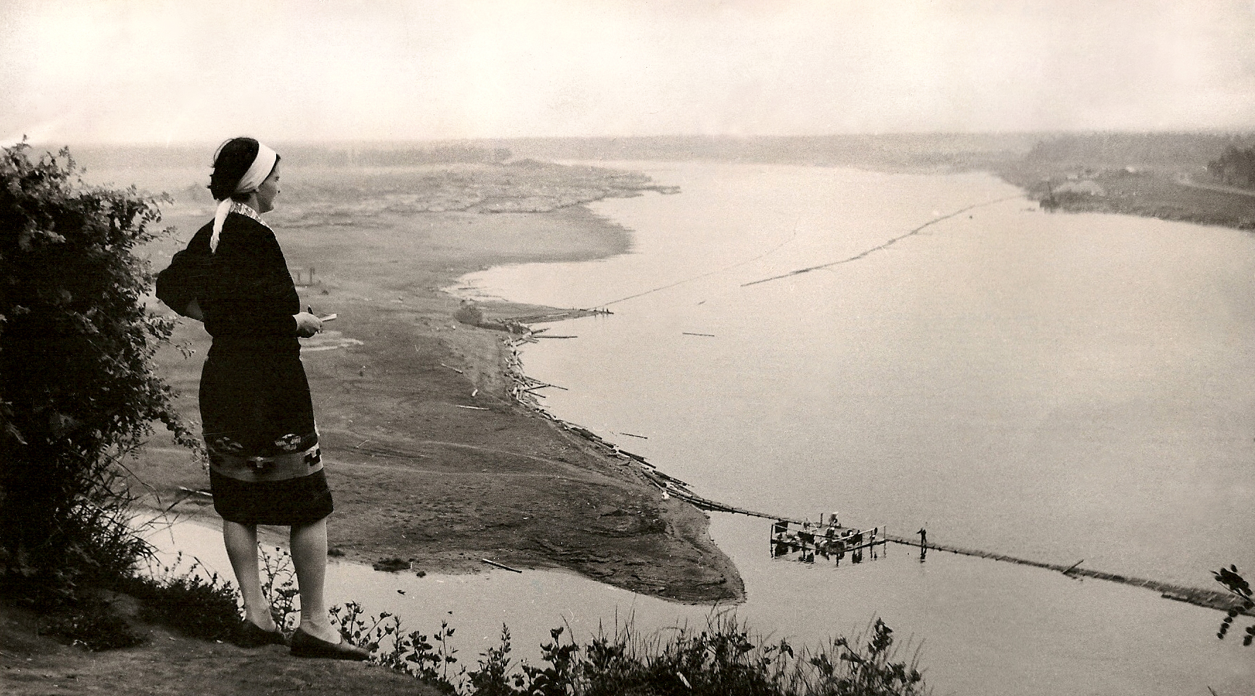 Ella D. Dobrovolskaya on the bank of the River Vyatka near the city of Slobodskoy